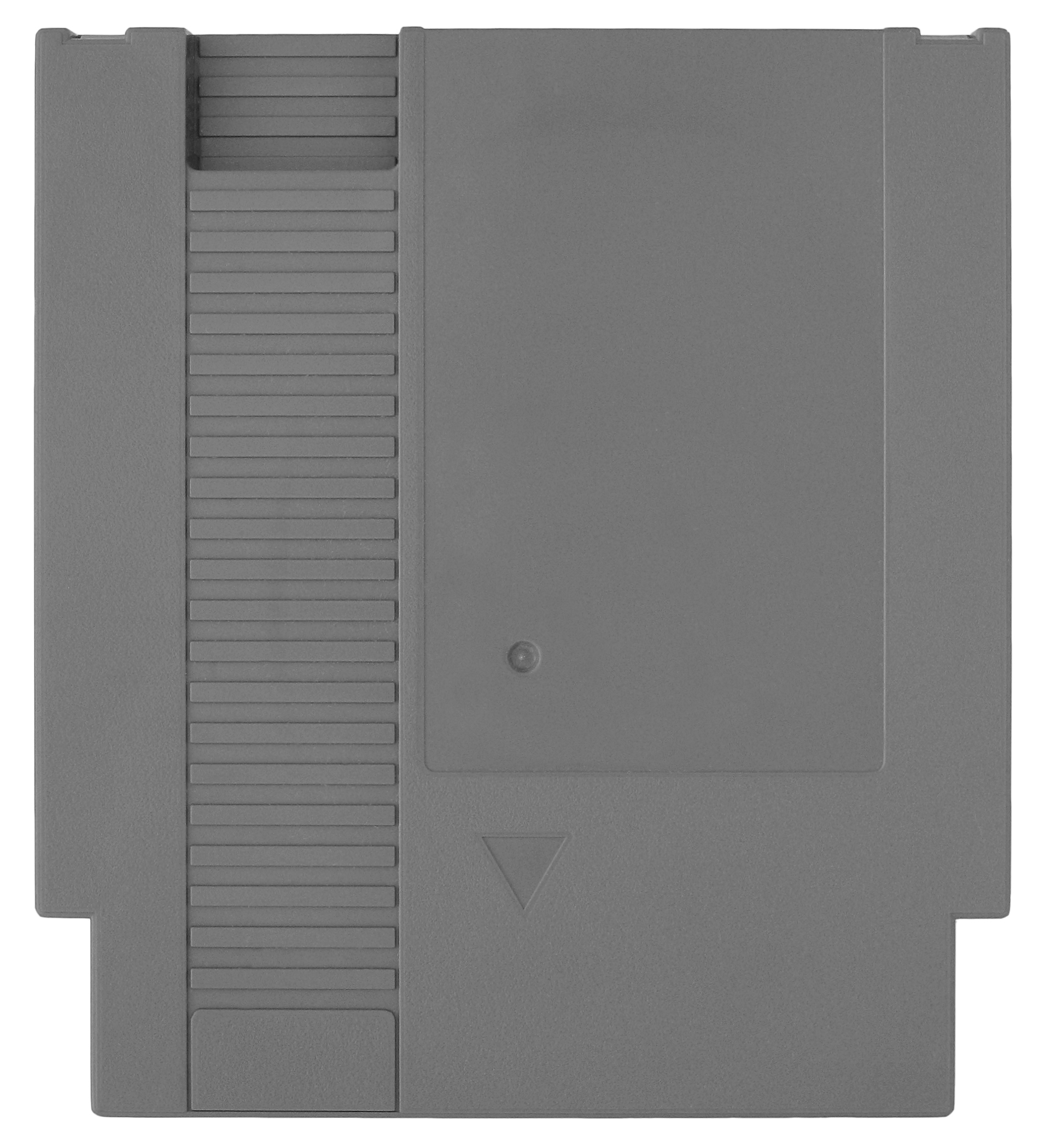 An NES game cartidge, shown without a game label. Please check my Wikimedia User Gallery for all of my public domain works.